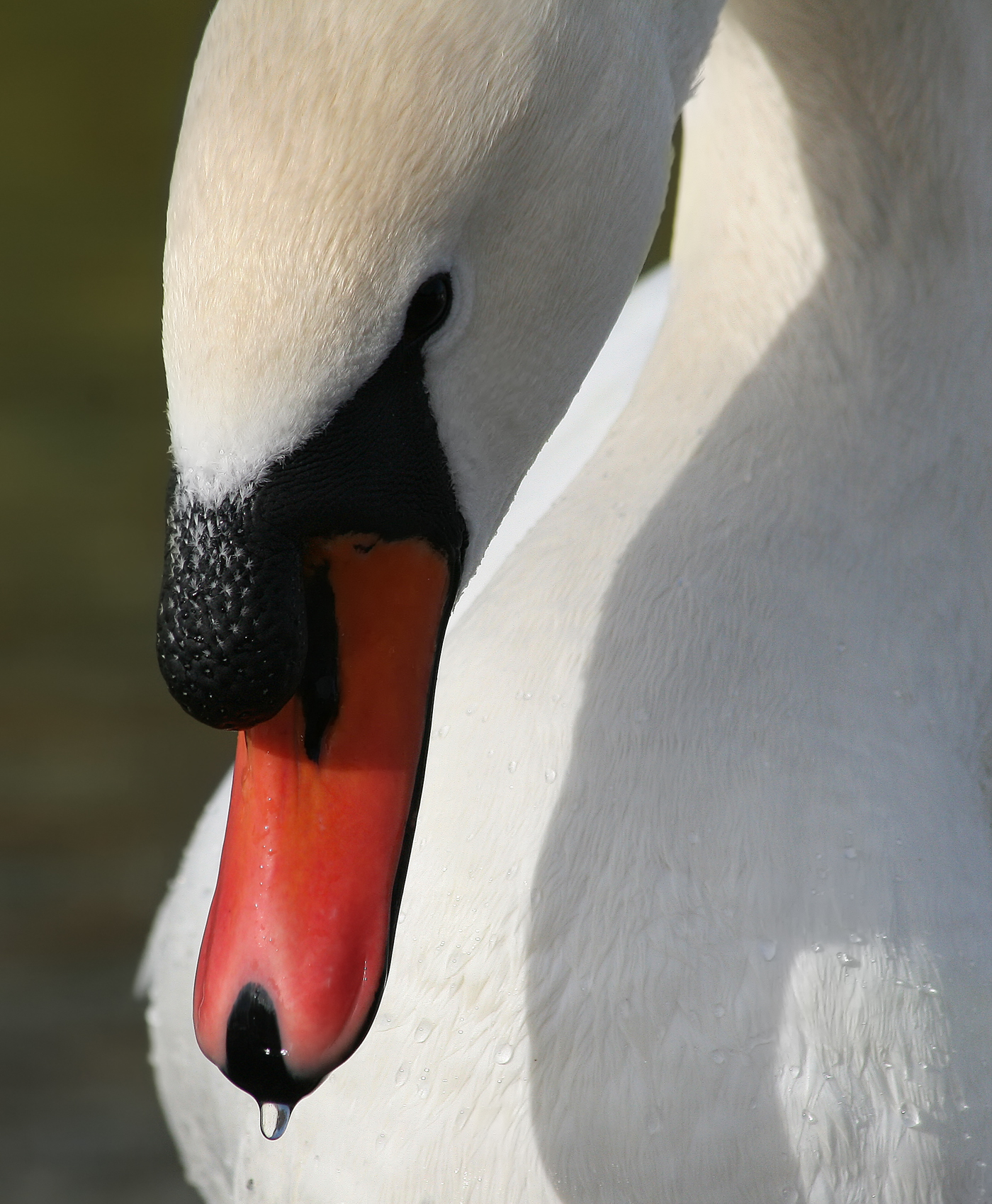 Description